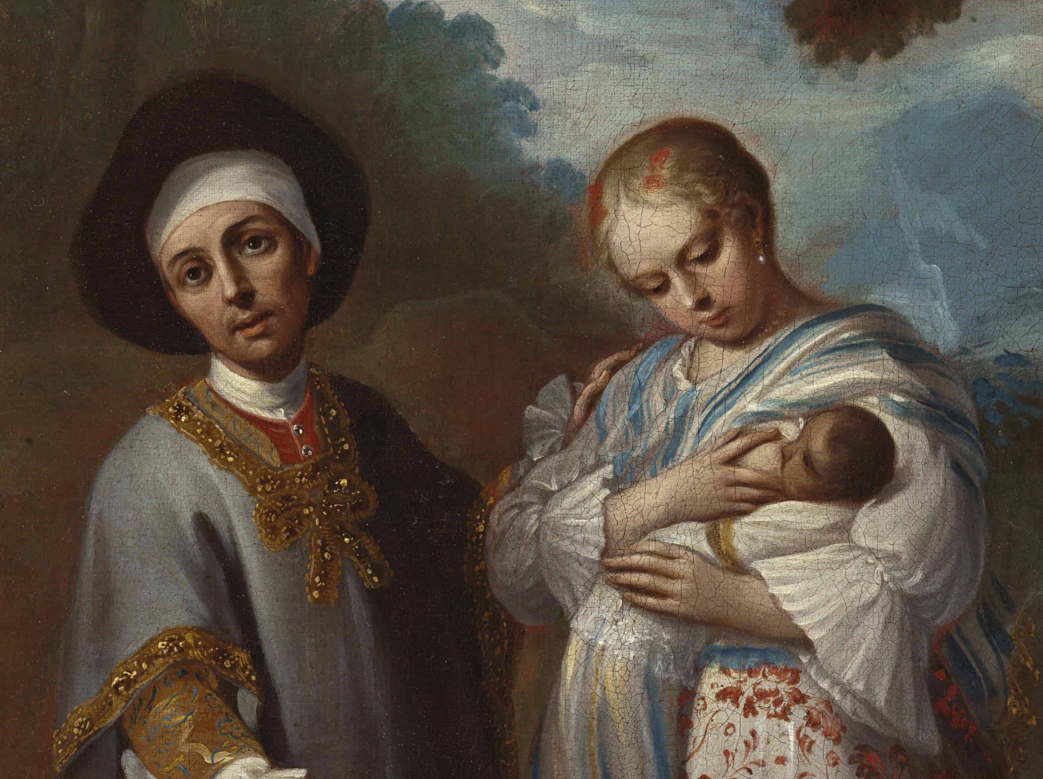 circa 1760 Paintings Oil on canvas Gift of the 2011 Collectors Committee (M.2011.20.2) Latin American Art Currently on public view: Art of the Americas Building, floor 4